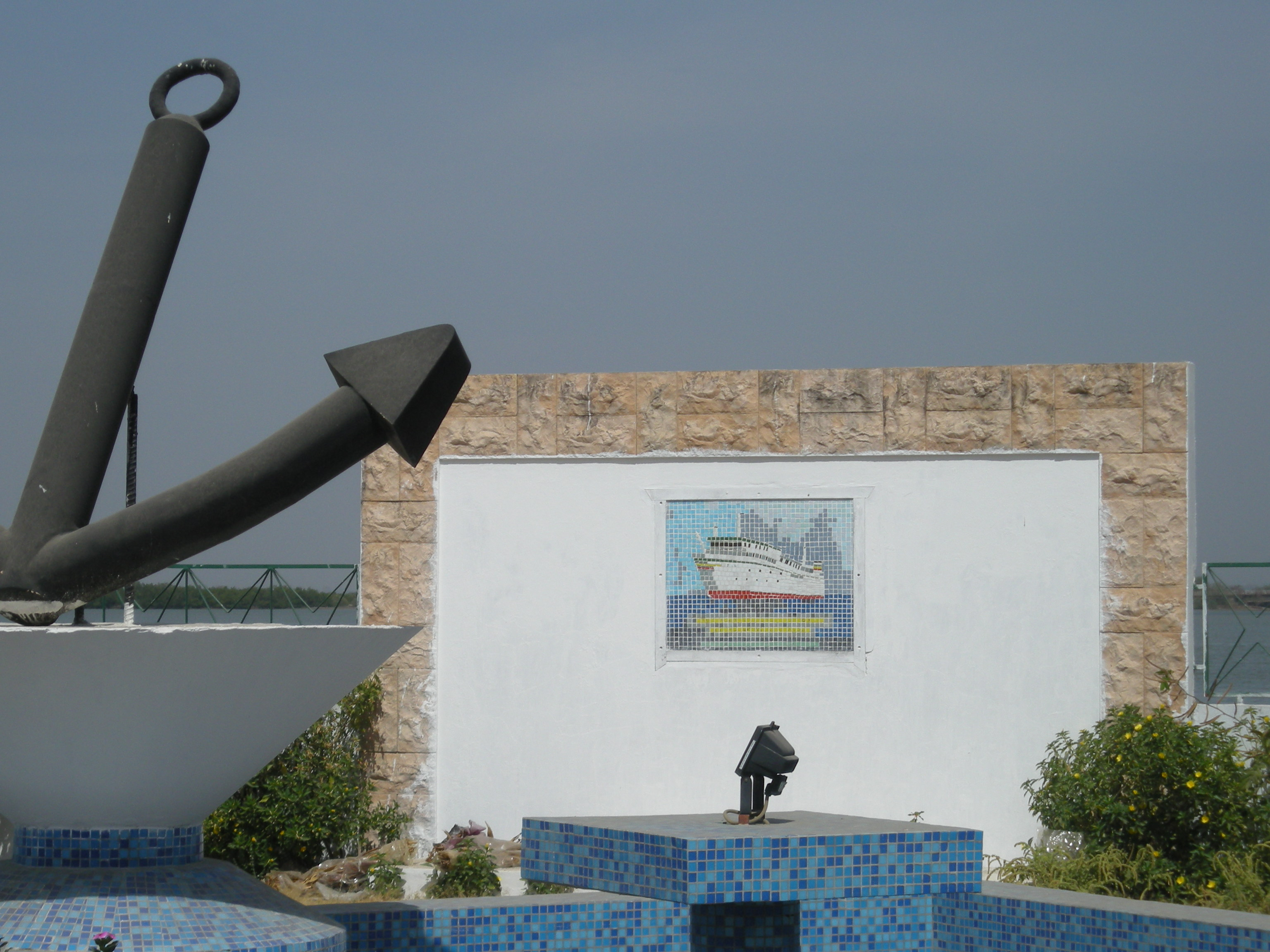 Ziguinchor (Casamance, Senegal) : Monument commemorating the sinking of the Joola on 22 September 2002